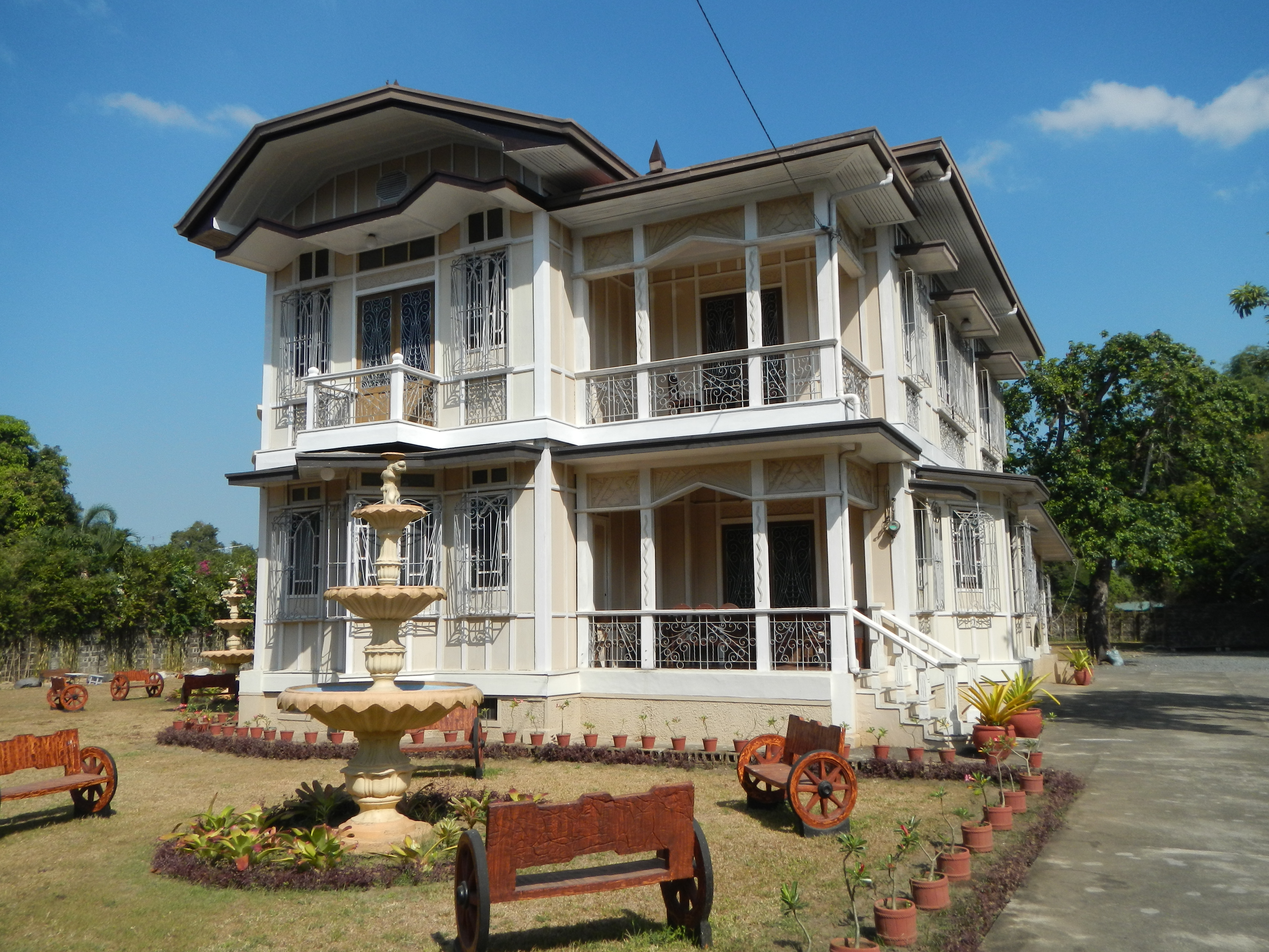 Casanova-Aguirre Mansion (Pulilan, Bulacan) of - Dr. Francisco R. Casanova & Dra. Felicidad D. Aguirre (parents of Court of Tax Appeals of the Philippines Court of Tax Appeals Associate Justice Caesar A. Casanova married to Amelia G. Eusebio, who inherited and is now the owner of this ancestral house and Mansion 1930′s architecture in Barangay Poblacion 14°54'23"N 120°51'3"E beside Tibag 14°54'23"N 120°49'30"E Pulilan, Bulacan Bulacan Philippine highway network.